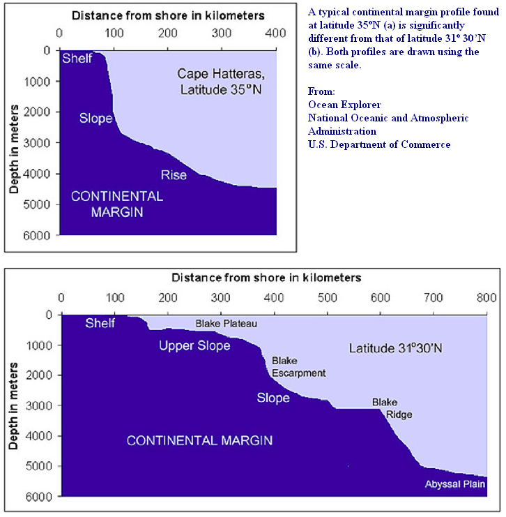 A Profile of the Southeast U.S. Continental Margin: A typical continental margin profile found at latitude 35ºN (a) is significantly different from that of latitude 31º 30’N (b). Both profiles are drawn using the same scale.